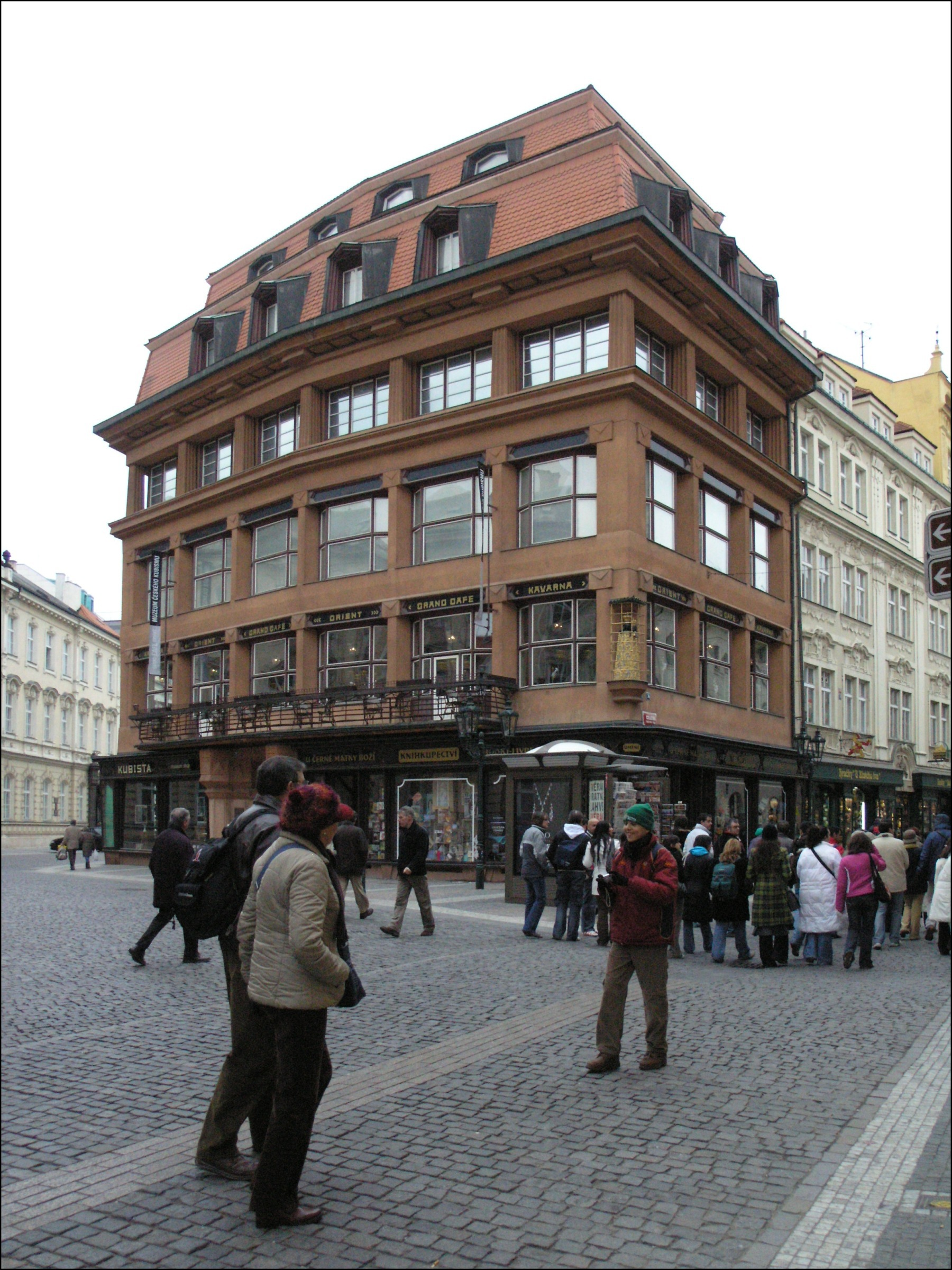 House of the Black Madonna